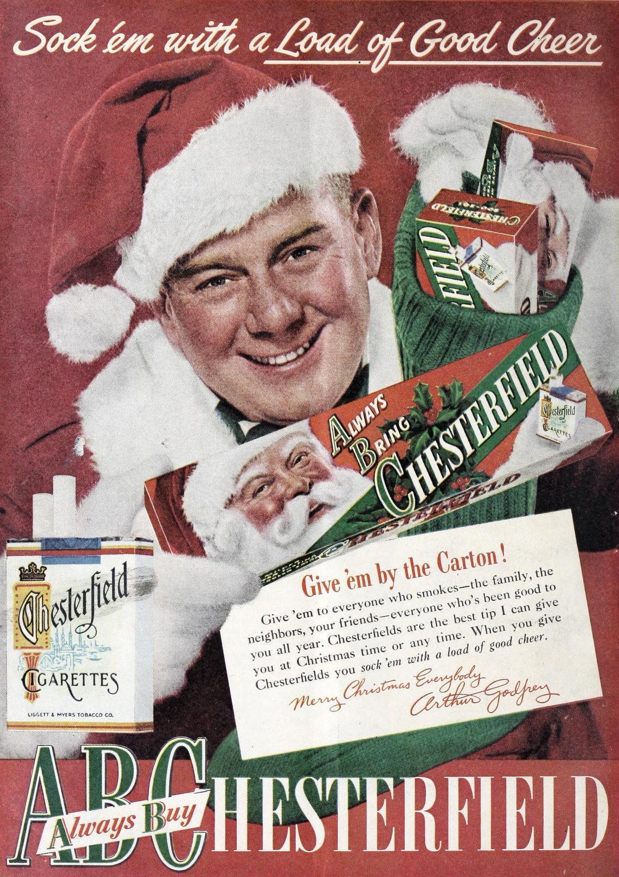 Arthur Godfrey: Always Bring Chesterfield, 1948